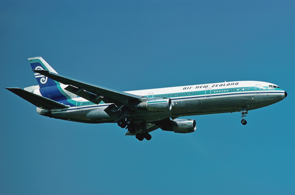 ZK-NZP, an Air New Zealand-operated McDonnell Douglas DC-10-30, on short final at London Heathrow Airport in July 1977. The aircraft was destroyed when it crashed into Mount Erebus, Antarctica while operating Air New Zealand Flight 901 on 28 November 1979.